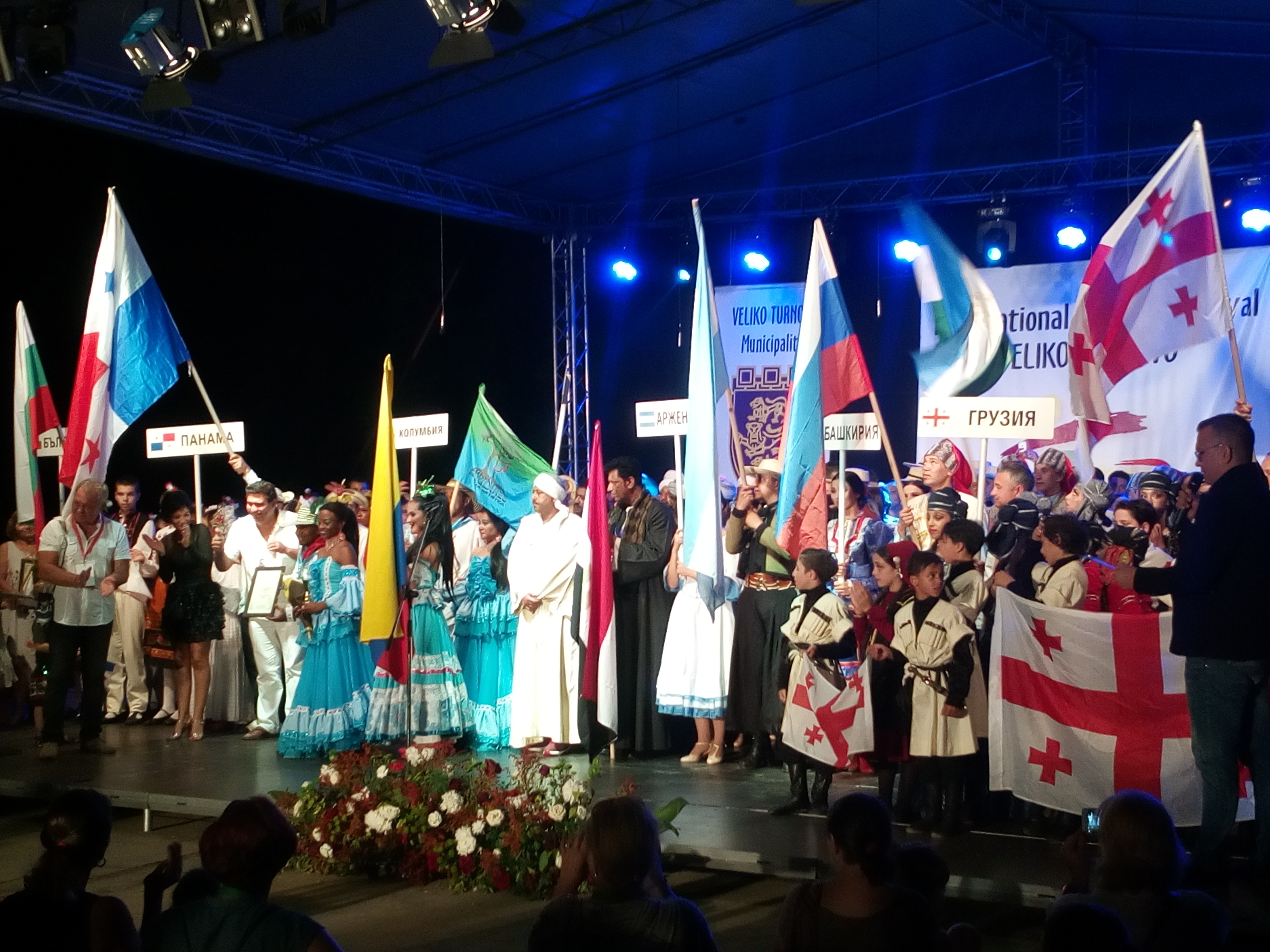 International folklore festival,Bulgaria 2019